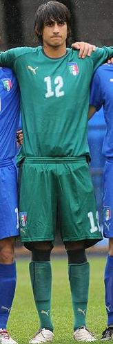 Mattia Perin in Italy U-19